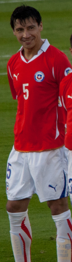 Pablo Contreras before the match between Uruguay NT and Chile NT on 11/11/11